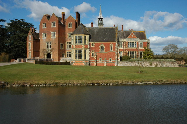 Madresfield Court Much of the picturesque moated Madresfield Court is Victorian with some of the Elizabethan building surviving, though the house is on a site of an early building. The house has never been bought or sold and has remained in the same family for twenty-eight generations, some 1,000 years. In the 1930s, the author, Evelyn Waugh was a regular visitor to Madresfield Court, thus providing the inspiration for his book, 'Brideshead Revisited'.